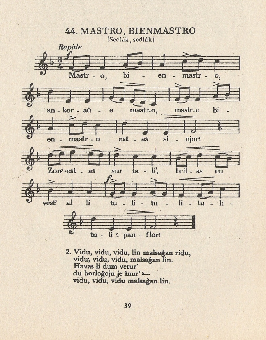 Songbook—Czechoslovak folg songs in Esperanto. The song Mastro, bienmastro (Sedlák, sedlák) from the page 39.